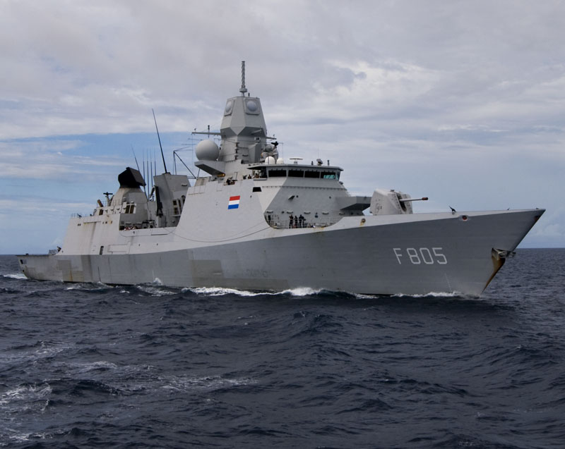 Dutch navy frigate F805 Evertsen (De Zeven Provinciën class)